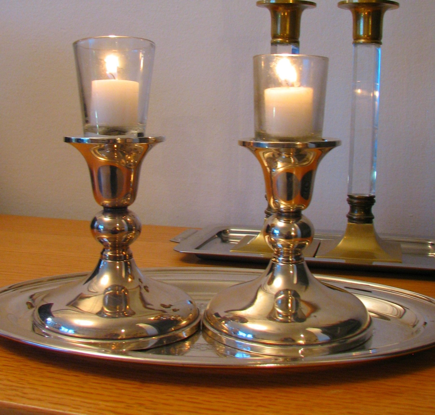 Silver candlesticks used for candle-lighting on the eve of Shabbat and Jewish holidays